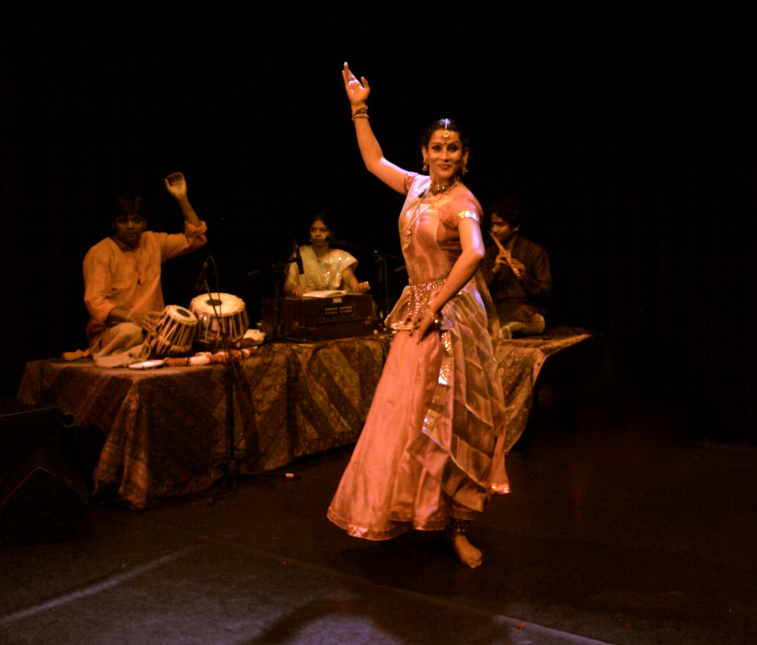 'State of Sam' performed by Manisha Gulyani in her Kathak recital